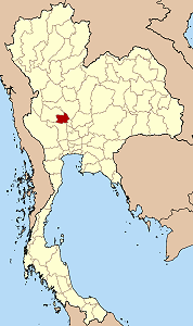 Map of Thailand hightlighting Chainat province